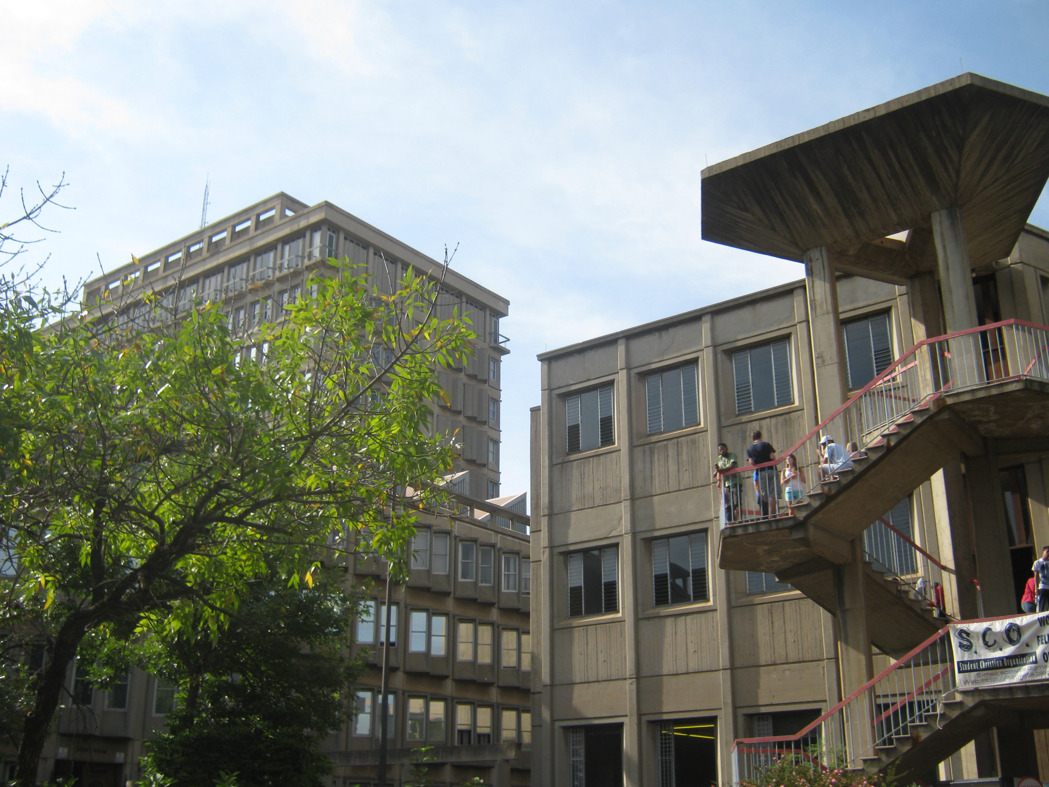 Senate House (left) and the Richard Ward Building (right) at the University of the Witwatersrand, Johannesburg.